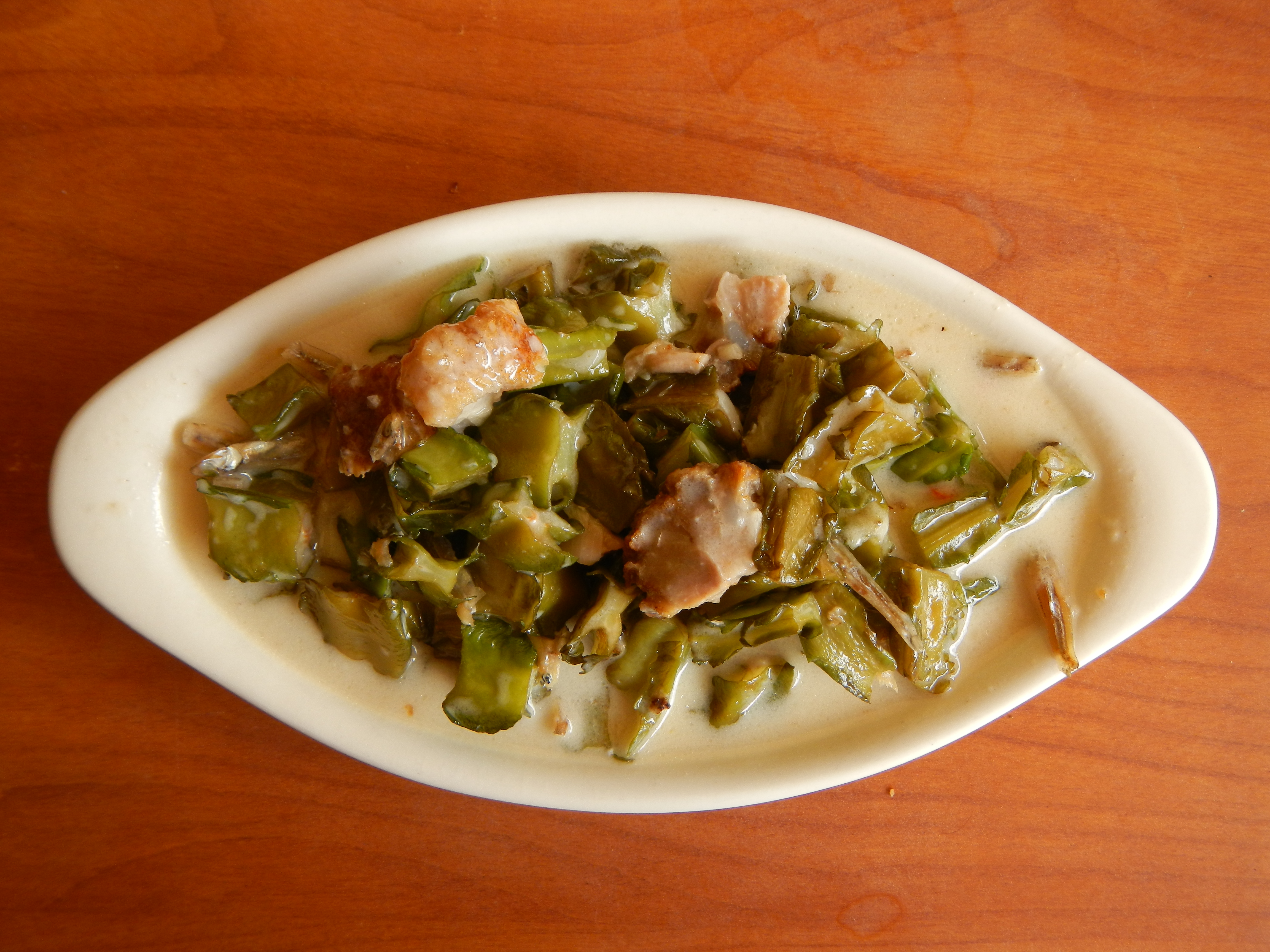 Winged bean[1] (Sigarilyas, Philippines) [2] cooked in coconut milk (Gata)